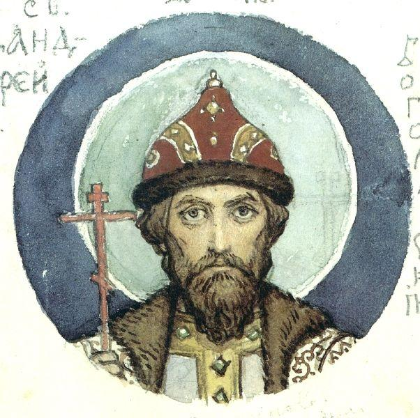 Prince Andrey of Bogolyubov